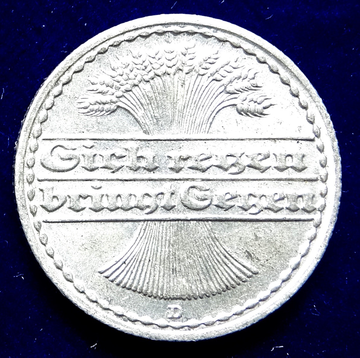 Denomination above date, curved above: "Deutsches Reich"/ 2 lines over sheaf: "Sich regen bringt Segen", mint mark below. KM 27. Medallists: Louis Oppenheim, 1879 Coburg - 1936 Berlin and Reinhard Kullrich, 1869 Berlin - 1947 Condition: EXTREMELY FINE, no hidden faults.